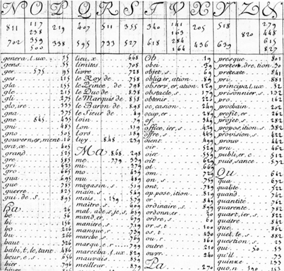 A part of a typical nomenclator used during the reign of Louis XIV.